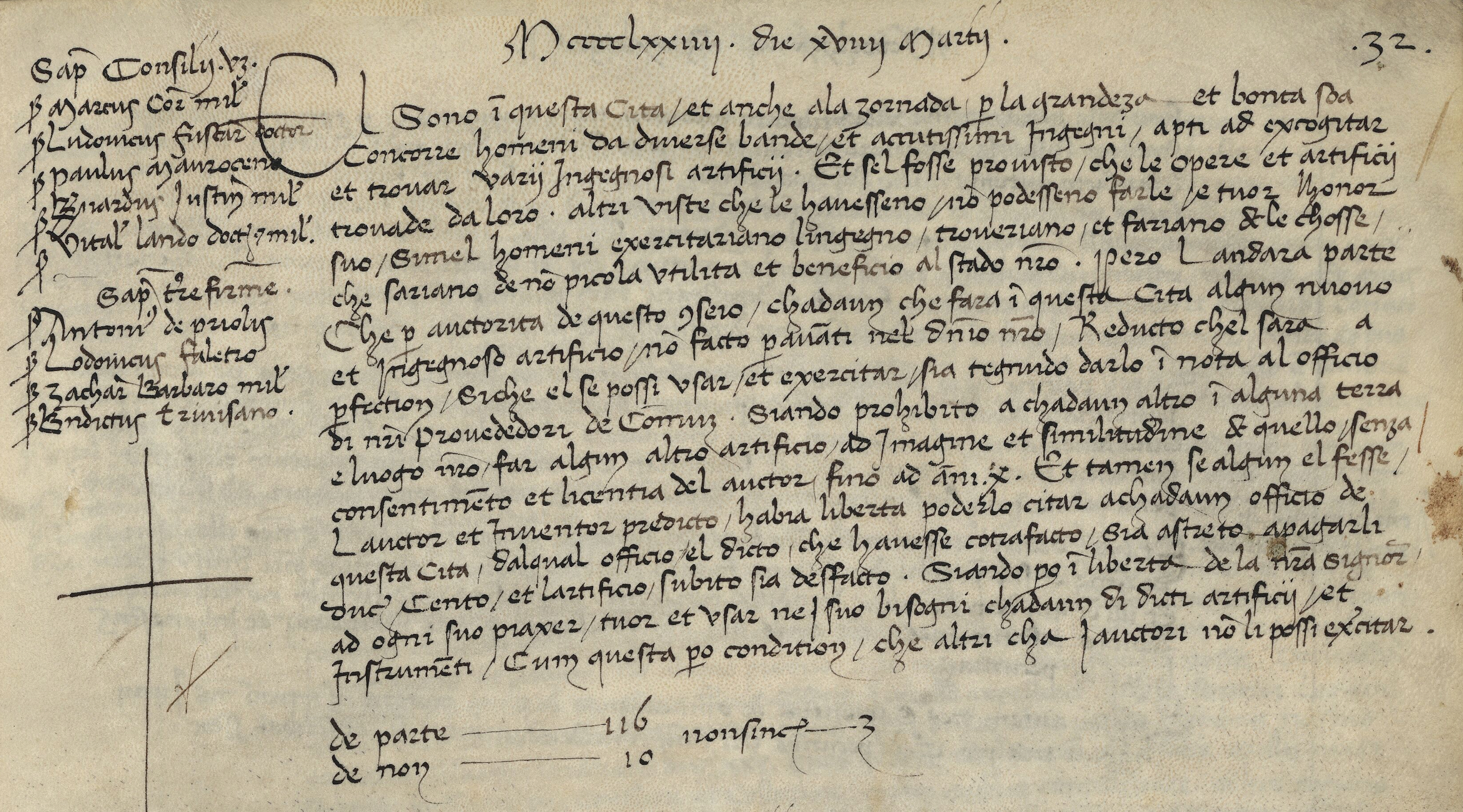 This is the first modern patent statute, issued by the Senate of Venice and held in the Archivio di Stato (ASV, Senato Terra, reg. 7, c. 32r).